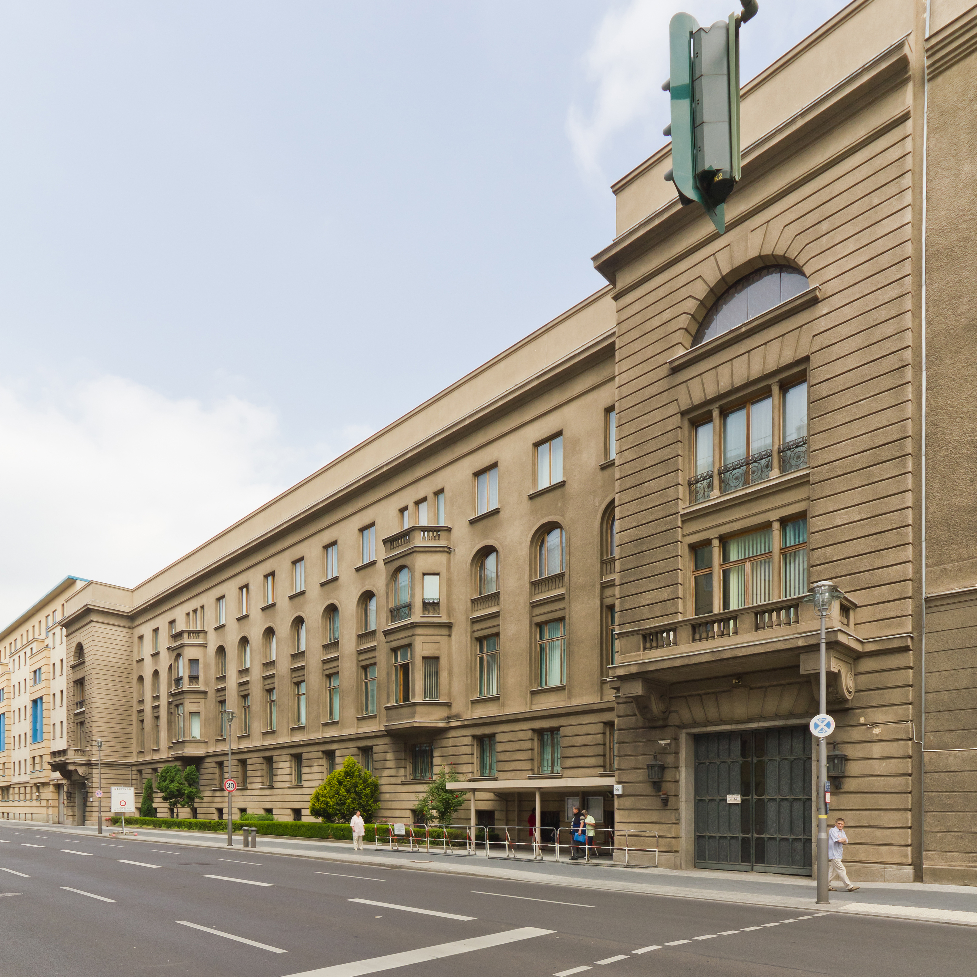 The Russian Embassy (Behrenstraße side), Berlin, Germany